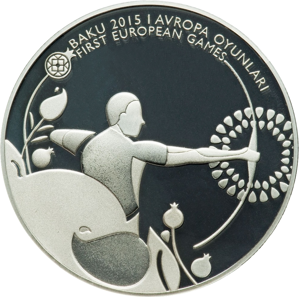 Commemorative coin of Azerbaijan